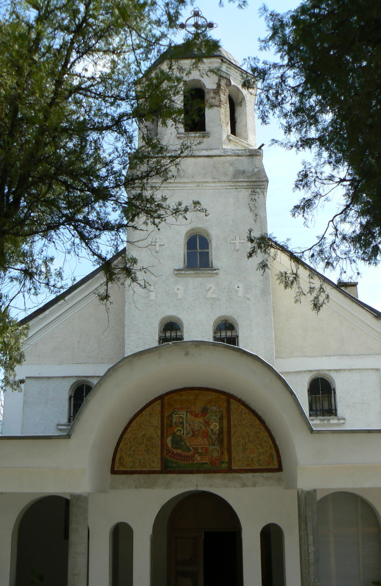 Church "Assumption" in the town of Simitli, Bulgaria